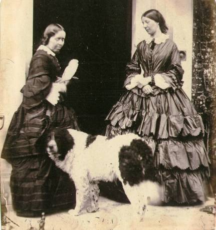 Old photograph of the amateur photographer Jane Martha St. John and her husband's youngest sister Julia with Jane's dog Peter and Polly her parrot.